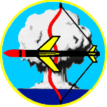 Insignia of U.S. Navy Attack Squadron 104 (VA-104) "Hell's Archers", active 1952 to 1959. There is no record of official approval for the squadron insignia by the United States Navy Chief of Naval Operations. The insignia on file at the U.S. Navy Naval History and Heritage Command for the squadron is a missile being shot by a long bow with an atomic explosion in the background. Colours for this insignia were: a light blue background out- lined in yellow; the water was medium blue and the atomic explosion was white with shades of light and medium blue; the long bow was red with a black bow string; the missile had a black body, yellow fins outlined in black, and a red tipped nose.